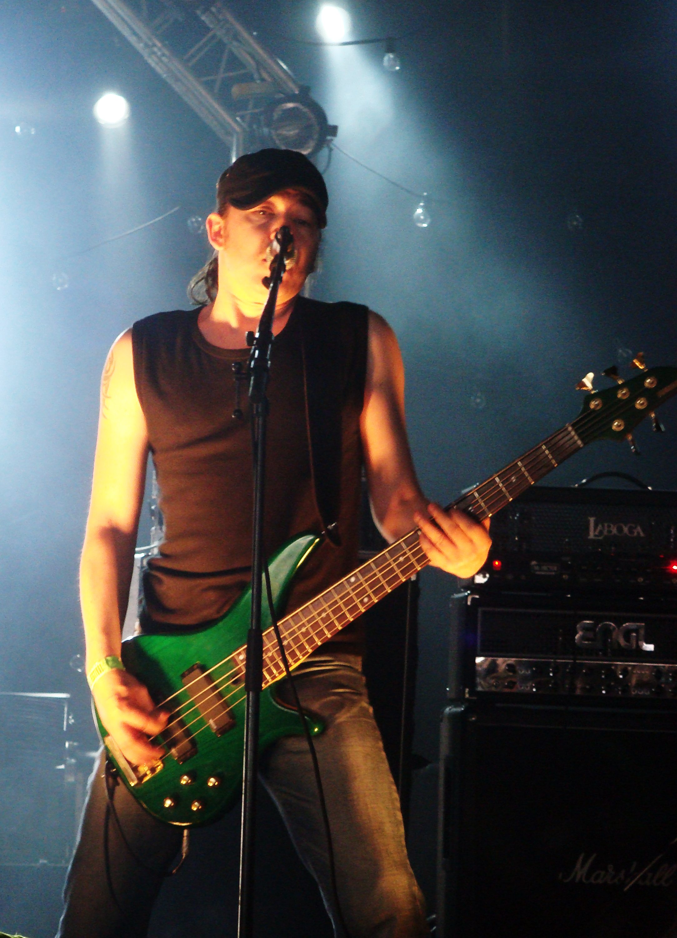 Lars Eikind of the Finnish metal band Before The Dawn performing during Tuska 2008 open air metal festival in Helsinki, Finland